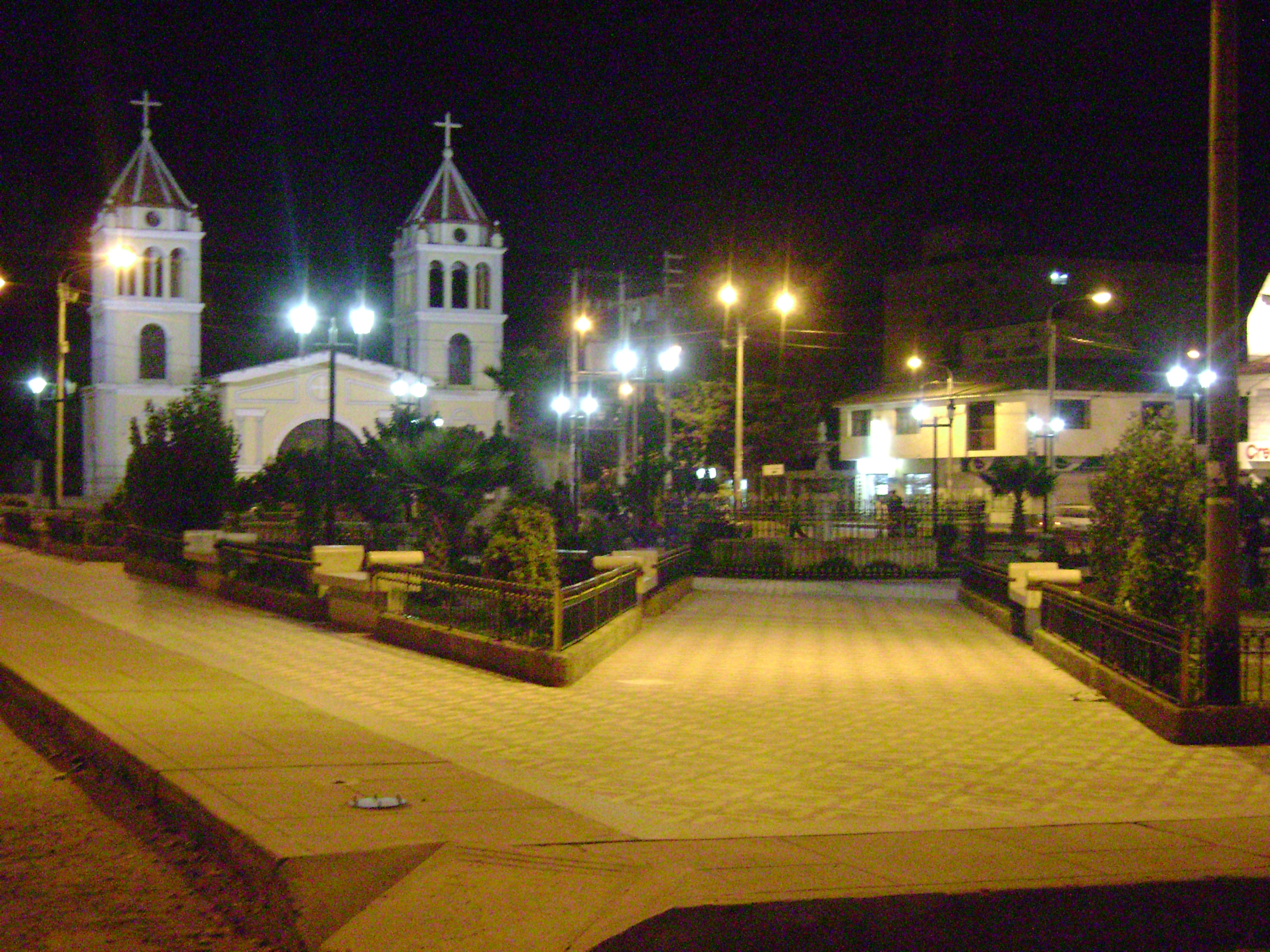 Plazuela Belen at night, city of Huaraz (Peru)